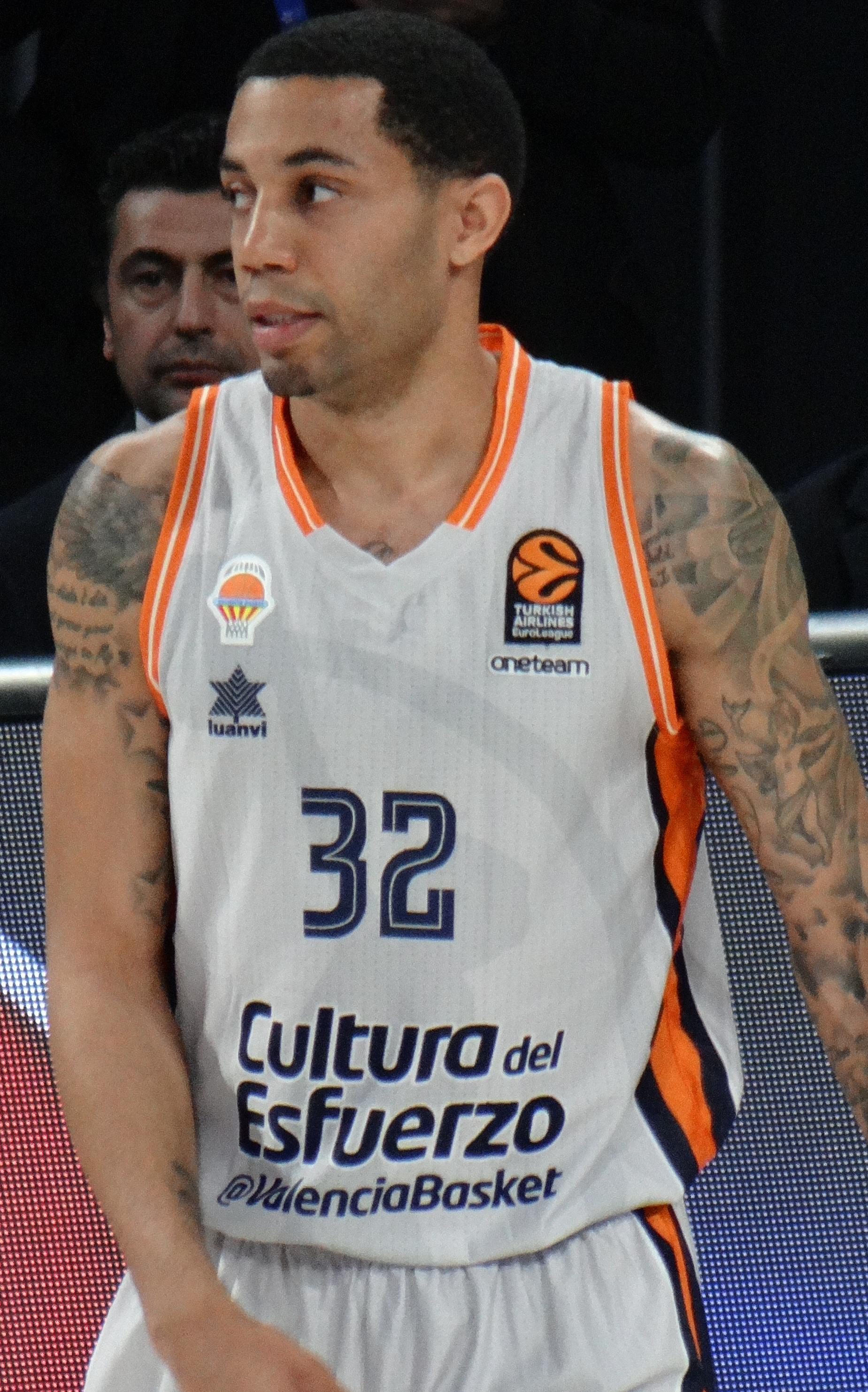 Erick Green 32 Valencia Basket EuroLeague 20180201